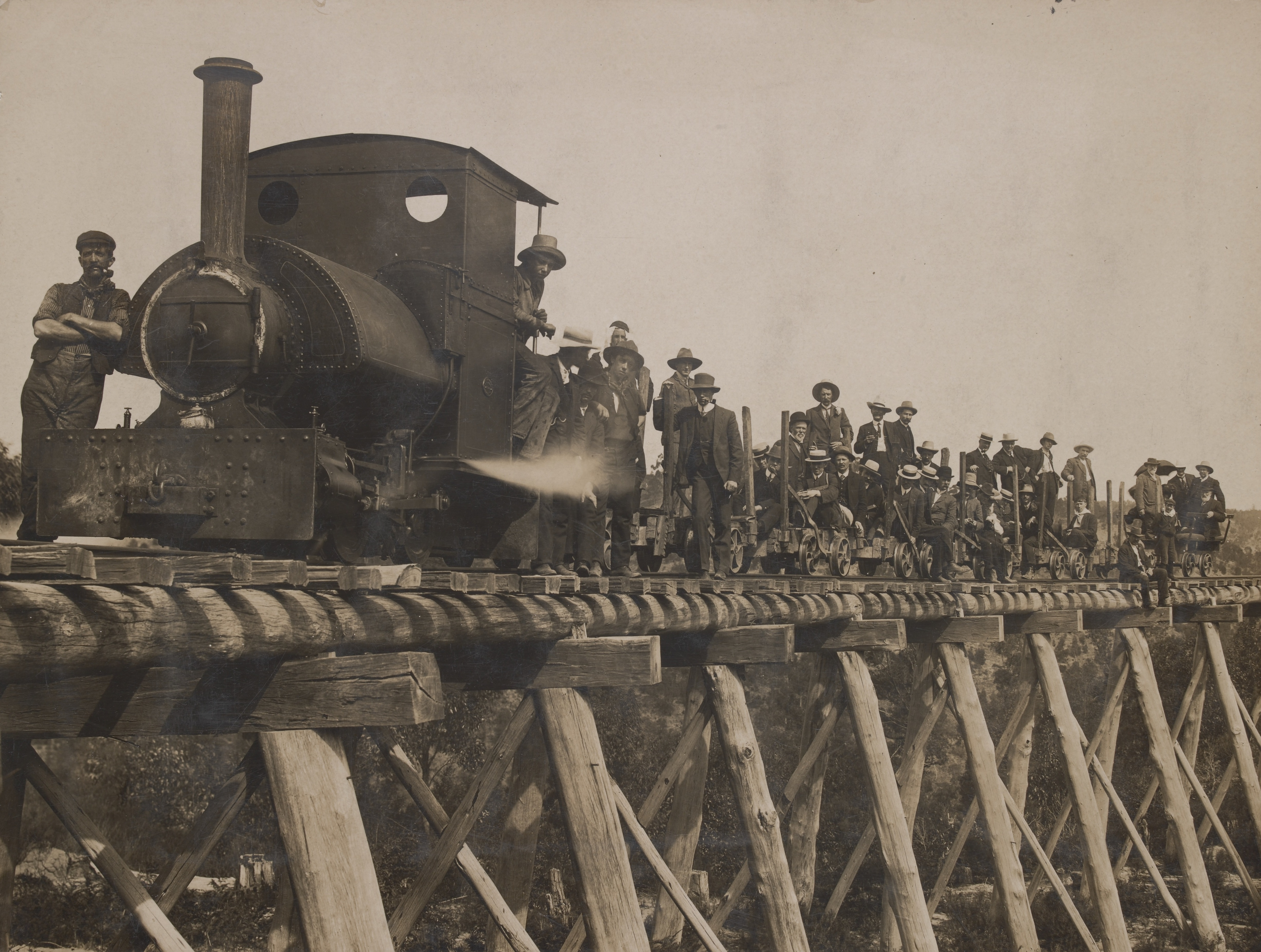 A photograph showing workers on and beside train and sitting on pulleys, dressed in suits, ties and hats, posing on the bridge they have completed as part of the Walhalla Railway construction. A train engine is on wooden bridge in foreground.